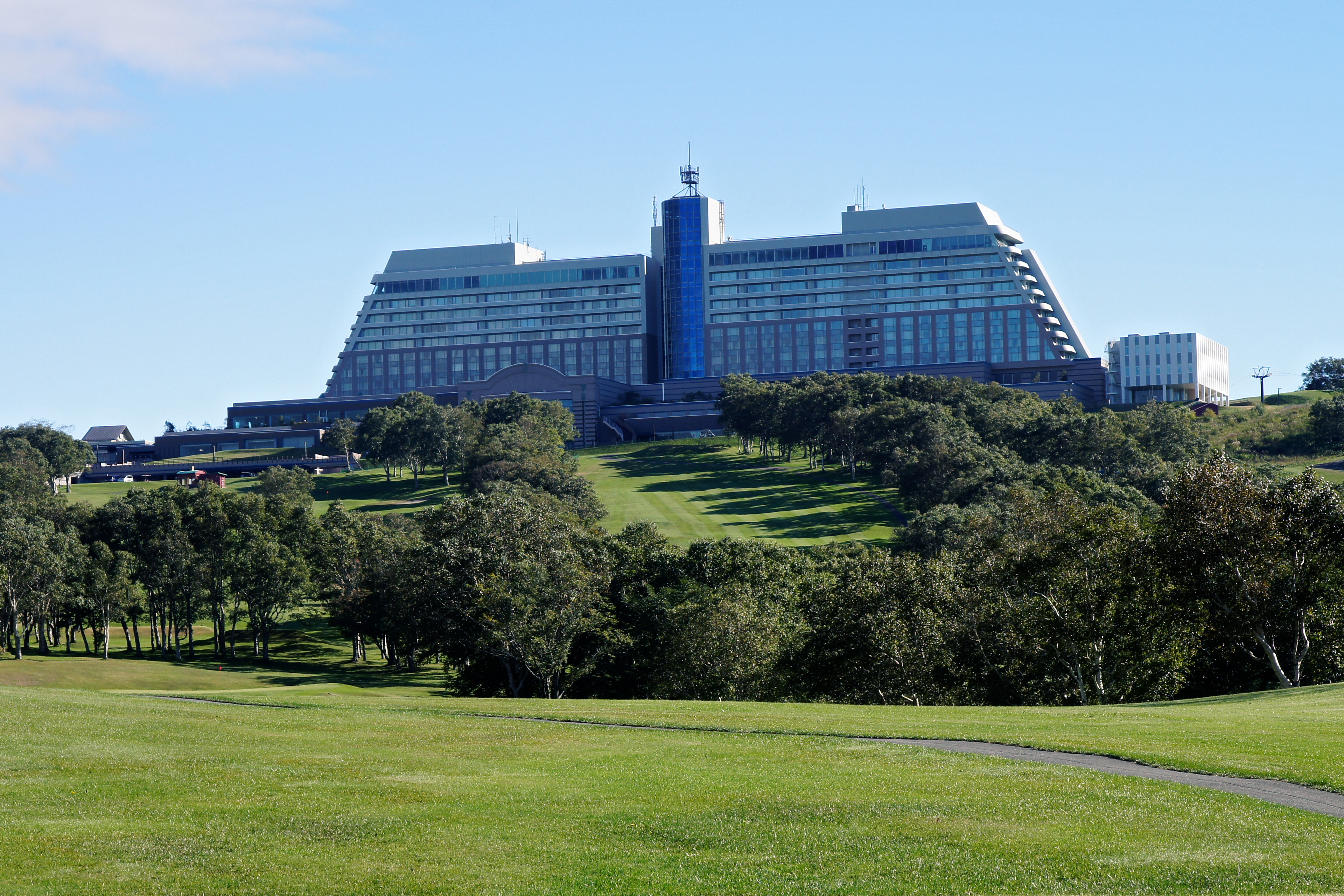 The Windsor Hotel Toya Resort & Spa in Toyako, Hokkaido prefecture, Japan.